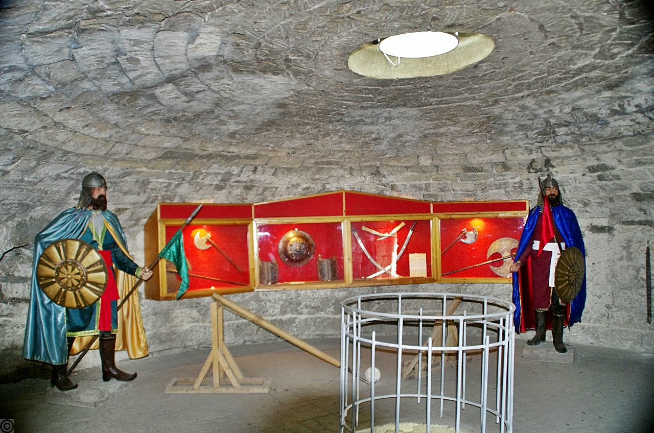 Maiden's Tower, a stone floor